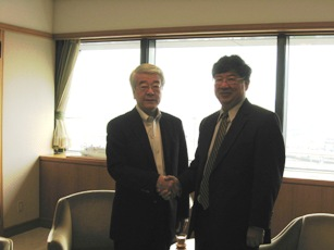 Consul General Edward Dong met Mayor of Kōbe City Tatsuo Yada at Kōbe City Hall in Kōbe City, Hyōgo Prefecture on September 17, 2008.